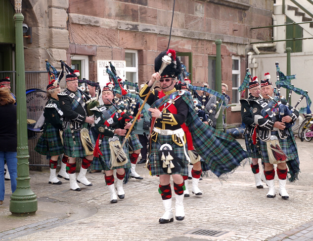 Pipers at Fort Perch Rock. These are the Clan Urquhart Highlanders Pipes and Drums, and very good they were too.